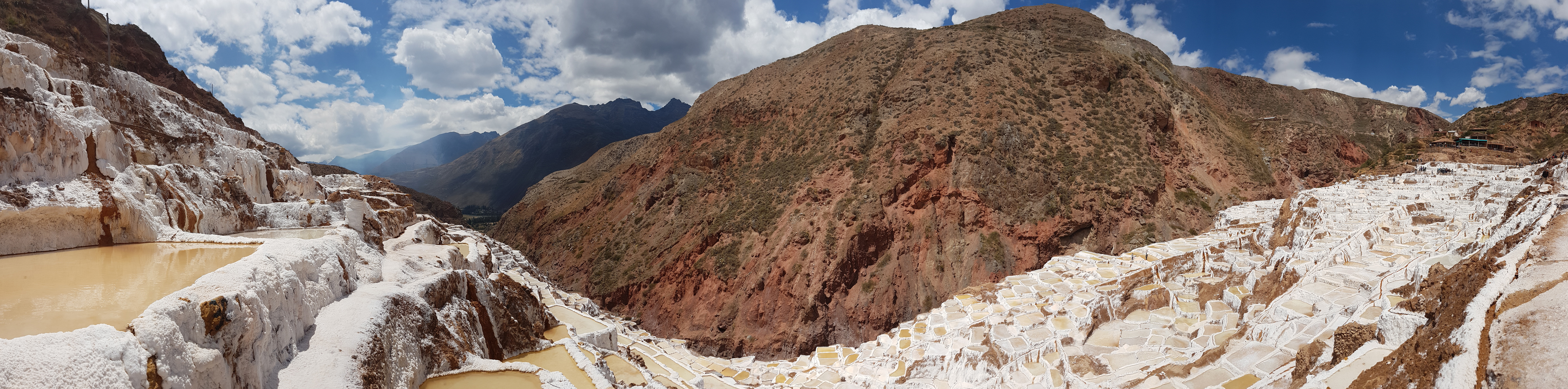 Inca salt harverst place in Maras, Peru